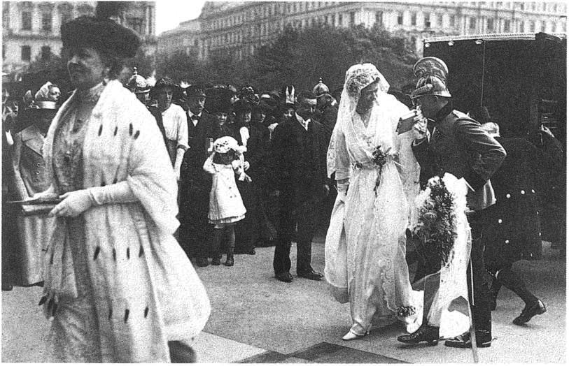 The Countess Clam-Gallas (left, wearing an ermine scarf) arriving at the Votivkirche in Vienna for the wedding of one of her seven daughters, (right couple) Countess Gabrielle Clam-Gallas to Adolf, Prince Auersperg. The wedding took place on April 28, 1914, shortly before the outbreak of World War I.